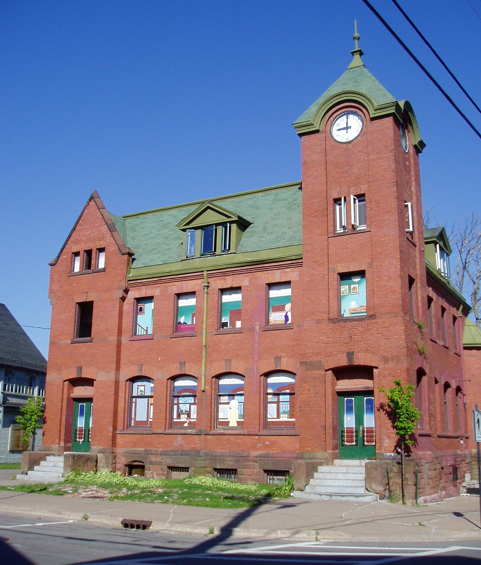 The customs house in Parrsboro, Nova Scotia. Taken by SimonP